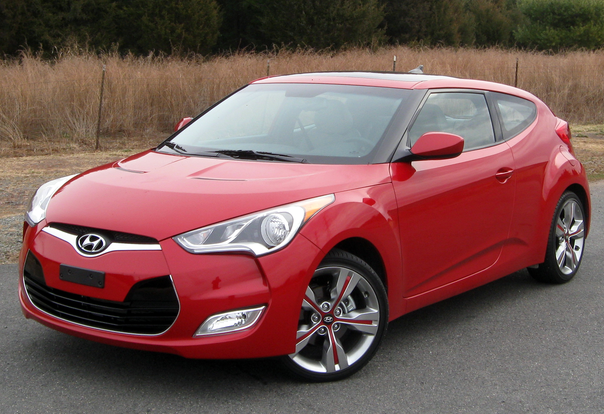 2012 Hyundai Veloster photographed in Centreville, Virginia, USA.